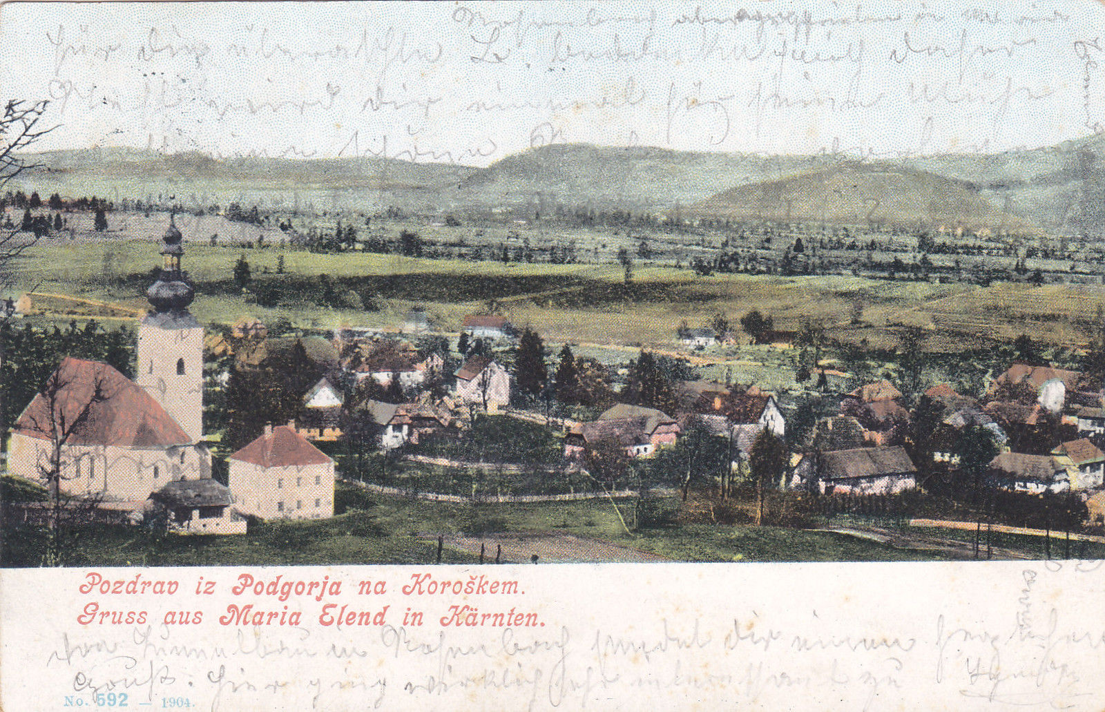 Podgorje, Slovenj Gradec.